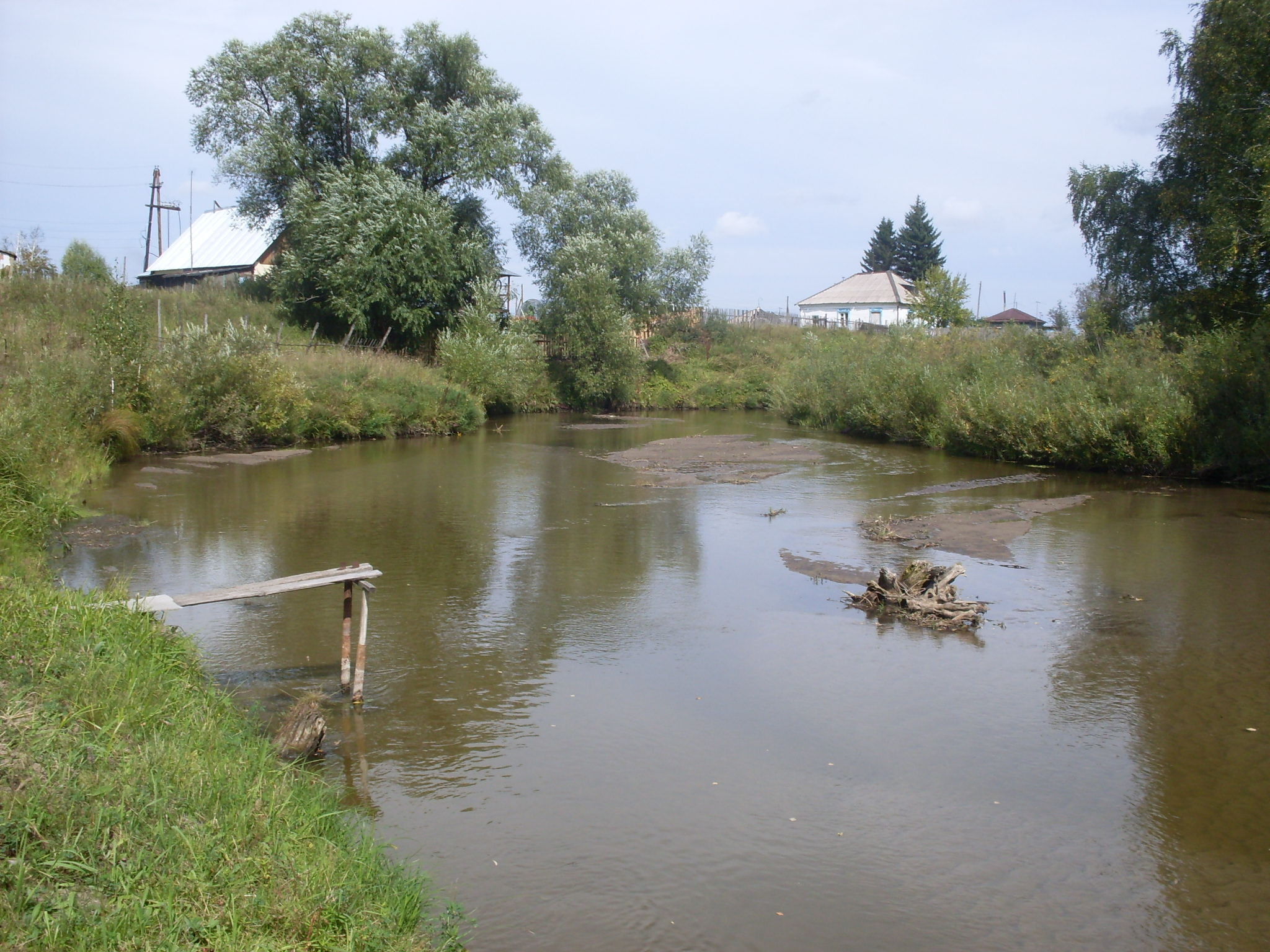 Barnaulka in Borzovya Zaimka, Russia